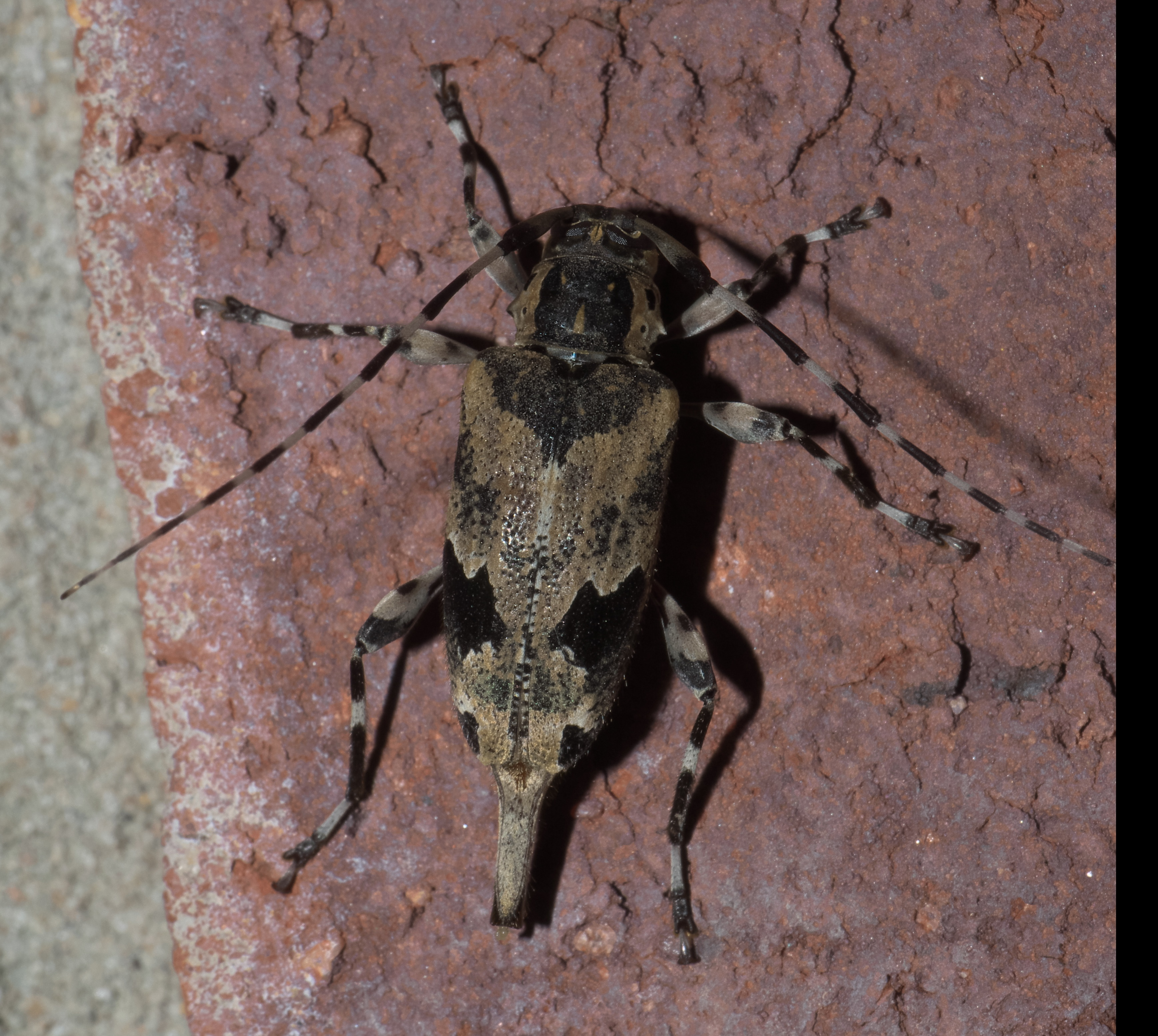 Graphisurus triangulifer, Subfamily: Flat-Faced Longhorns, female, ID Confidence: 98